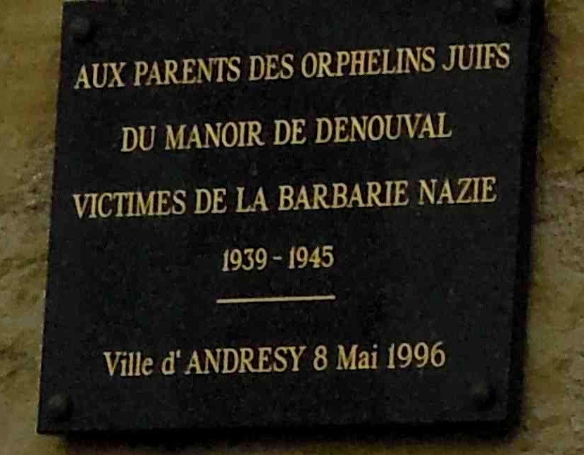 Reminder plaque on the site of the former orphanage at Manoir de Denouval in Andrésy, France: "To the parents of the Jewish children at Manoir de Denouval, victims of Nazi barbarity, 1939-1945, City of Andrésy May 8, 1996.